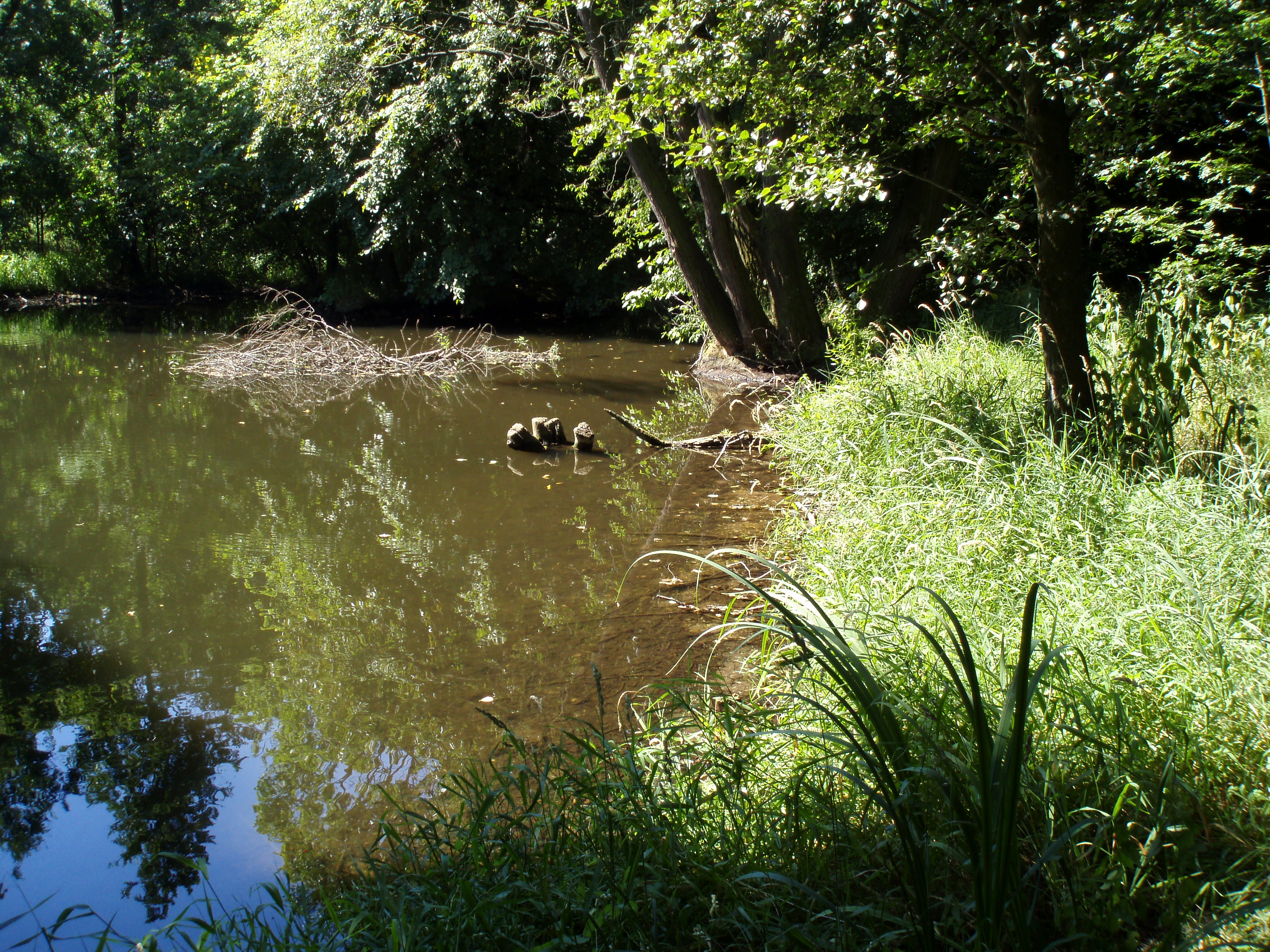 Ponds Ornstova jezera in Správčice (Hradec Králové, Czechia)